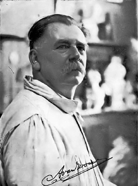 Anton van Wouw, first real South African sculptor of European descent